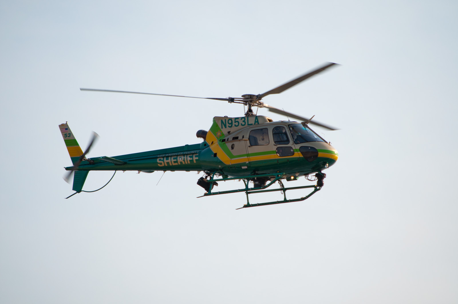 I am at Dockweiler State Beach, at the west end of LAX. I am picnicking with friends and taking lots of photos - and some of them happen to be aviation photos. A Los Angeles County Sheriff's helicopter is patrolling over the beach. Due to the traffic at LAX, all helicopters must fly very low, allowing for great photo ops. N953LA, American Eurocopter AS350B2